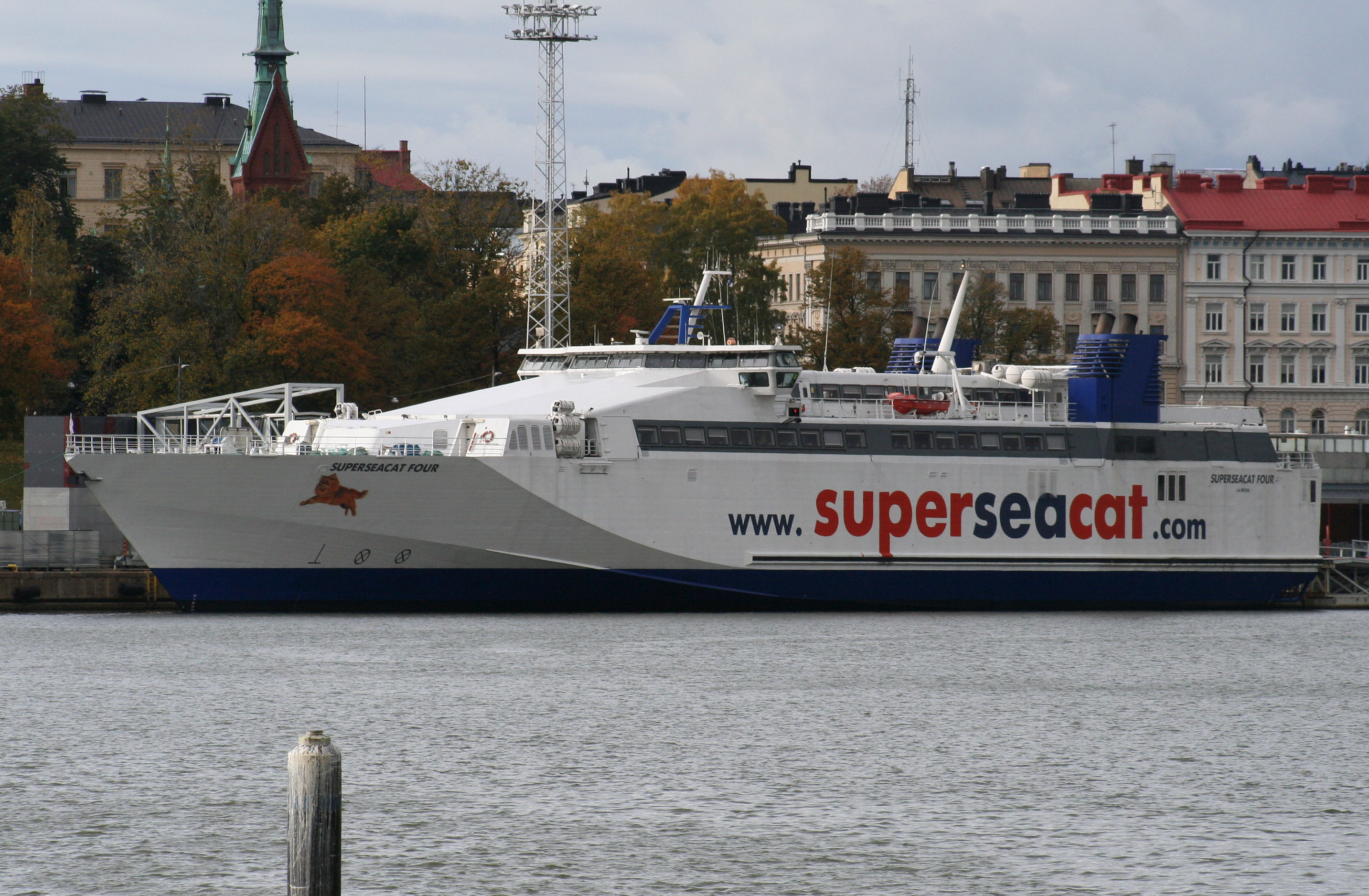 HSC SuperSeaCat Four at Helsinki South Harbour IMO Number: 9141883 MMSI Number: 247353000 Callsign: IBDU Length: 100 m Beam: 17 m